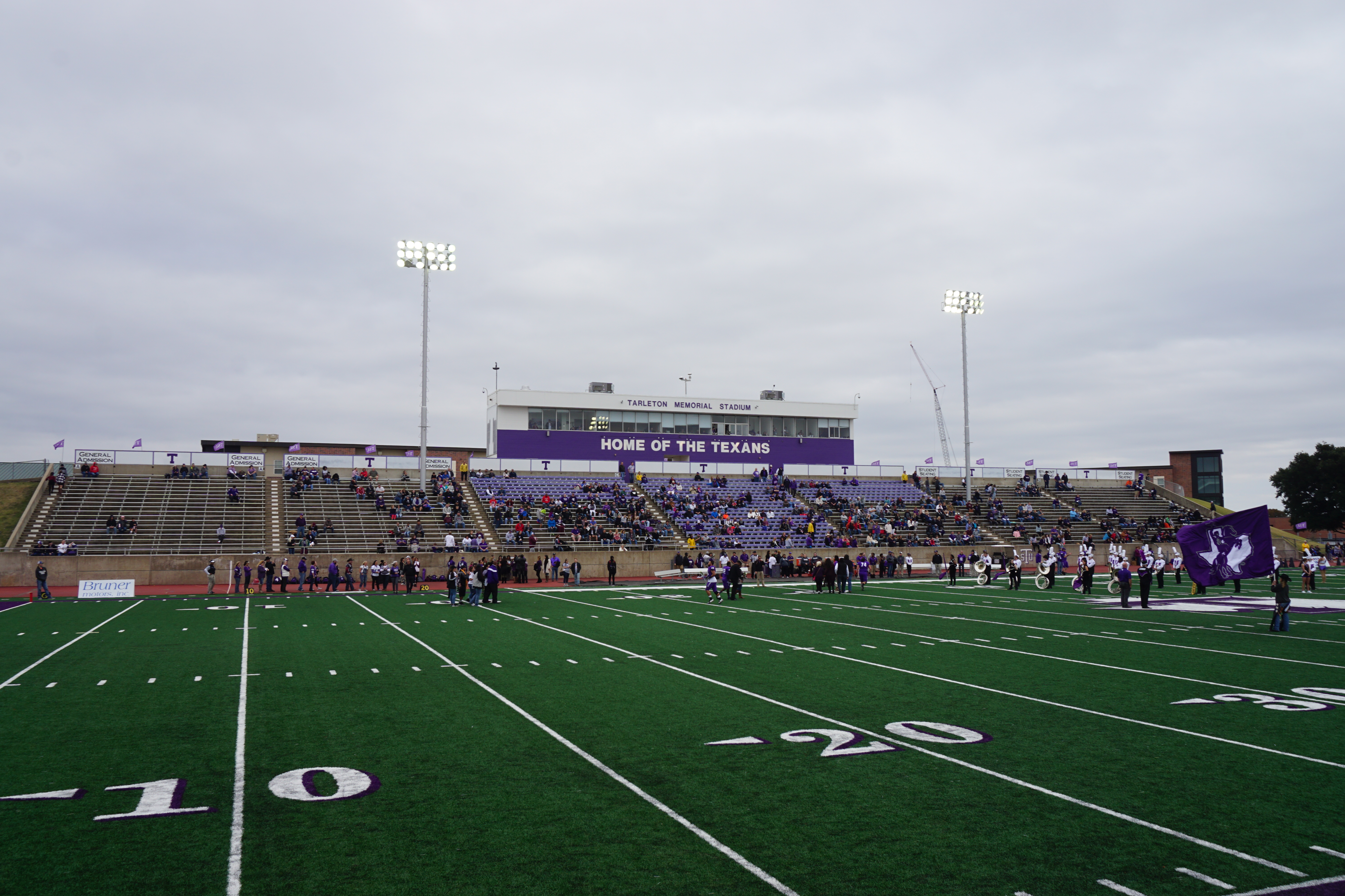 The stadium before the Texas A&M–Commerce Lions vs. Tarleton State Texans football game at Memorial Stadium in Stephenville, Texas (United States). A&M–Commerce won 33–21.